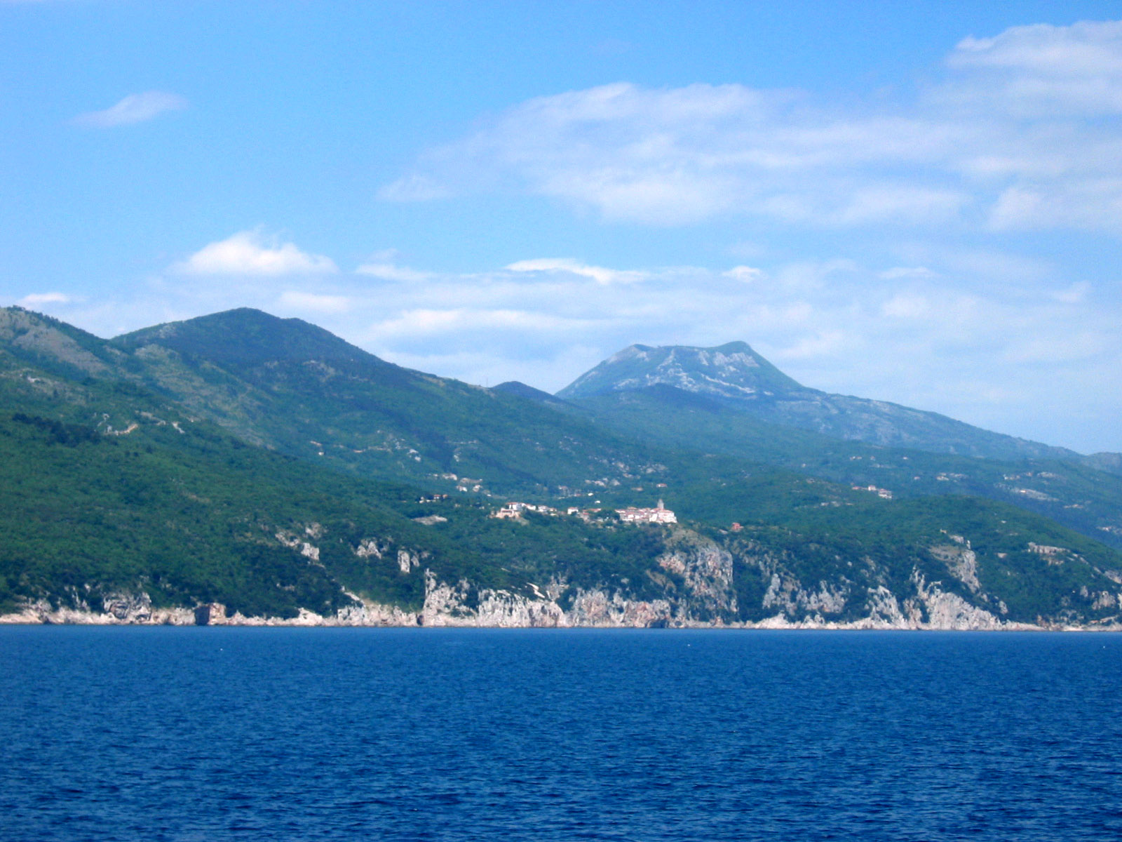 Učka, mountain in Istra, Croatia (view from Kvarner bay)